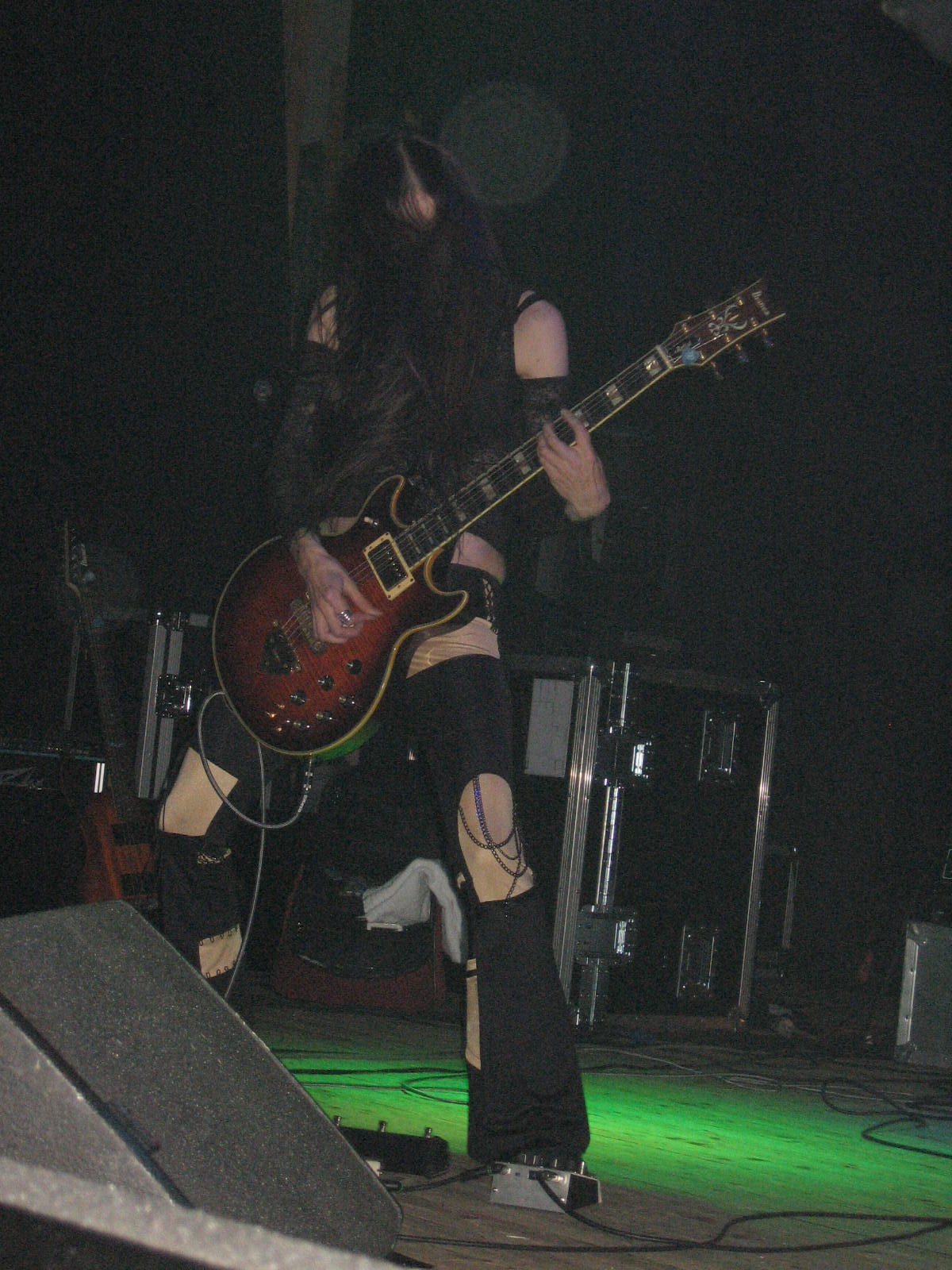 Samantha Escarbe of the Australian gothic-doom metal musical group Virgin Black. Taken at Elements of Rock festival 2007, Stadshofsaal, Uster, Switzerland. Originally uploaded at Italian Wikipedia by Senpai who says in the description that he was authorized by the webmaster of whitemetal.it site, Valerio Mei (author of the photo), to upload the photo. Licended under Italian Creative Commons attribute (CC-BY-SA-2.5-it). The image had a tag saying that the image is suitable for Wikimedia Commons.